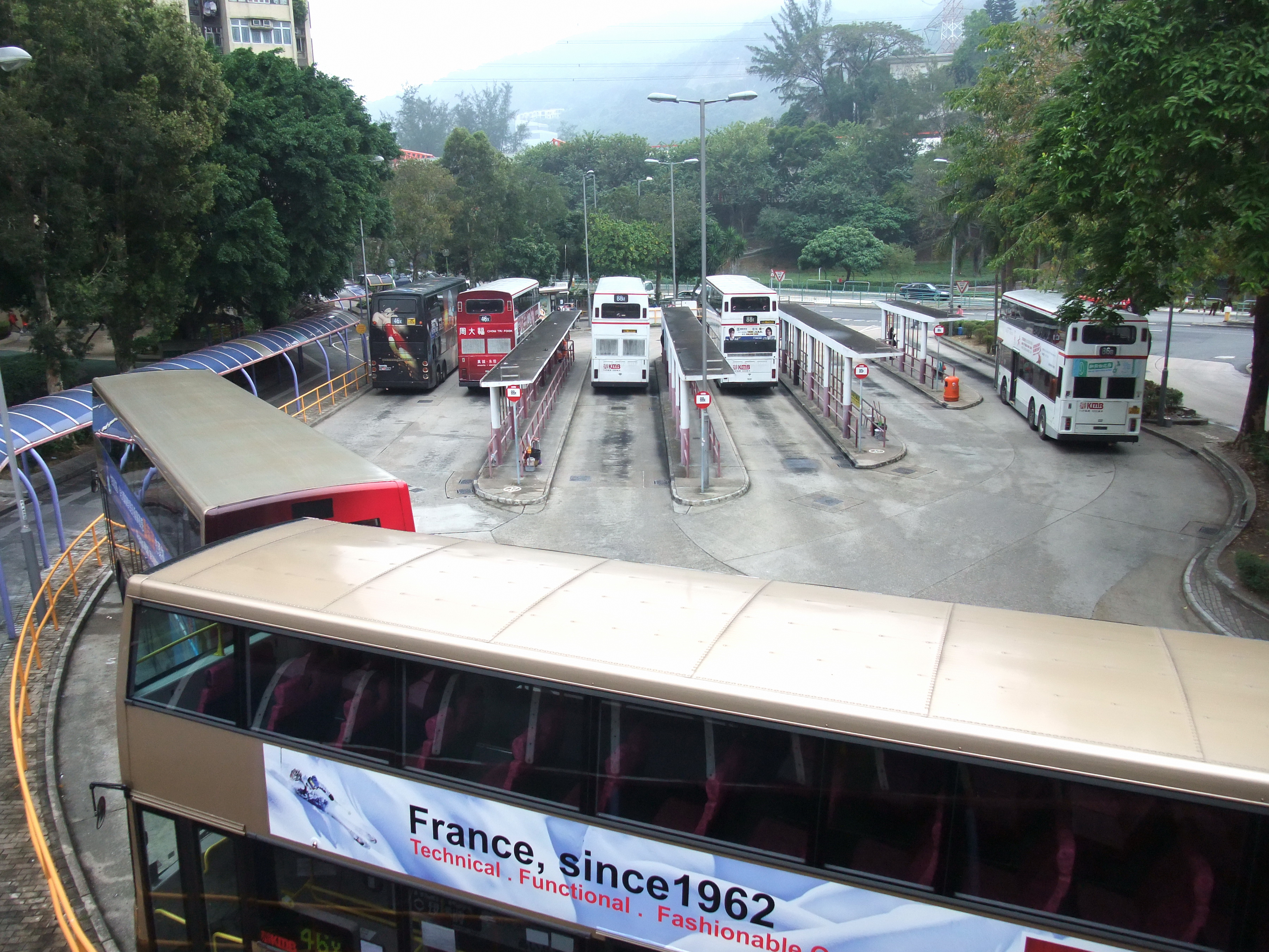 Hin Keng Bus Terminus, Sha Tin, New Territories, Hong Kong.